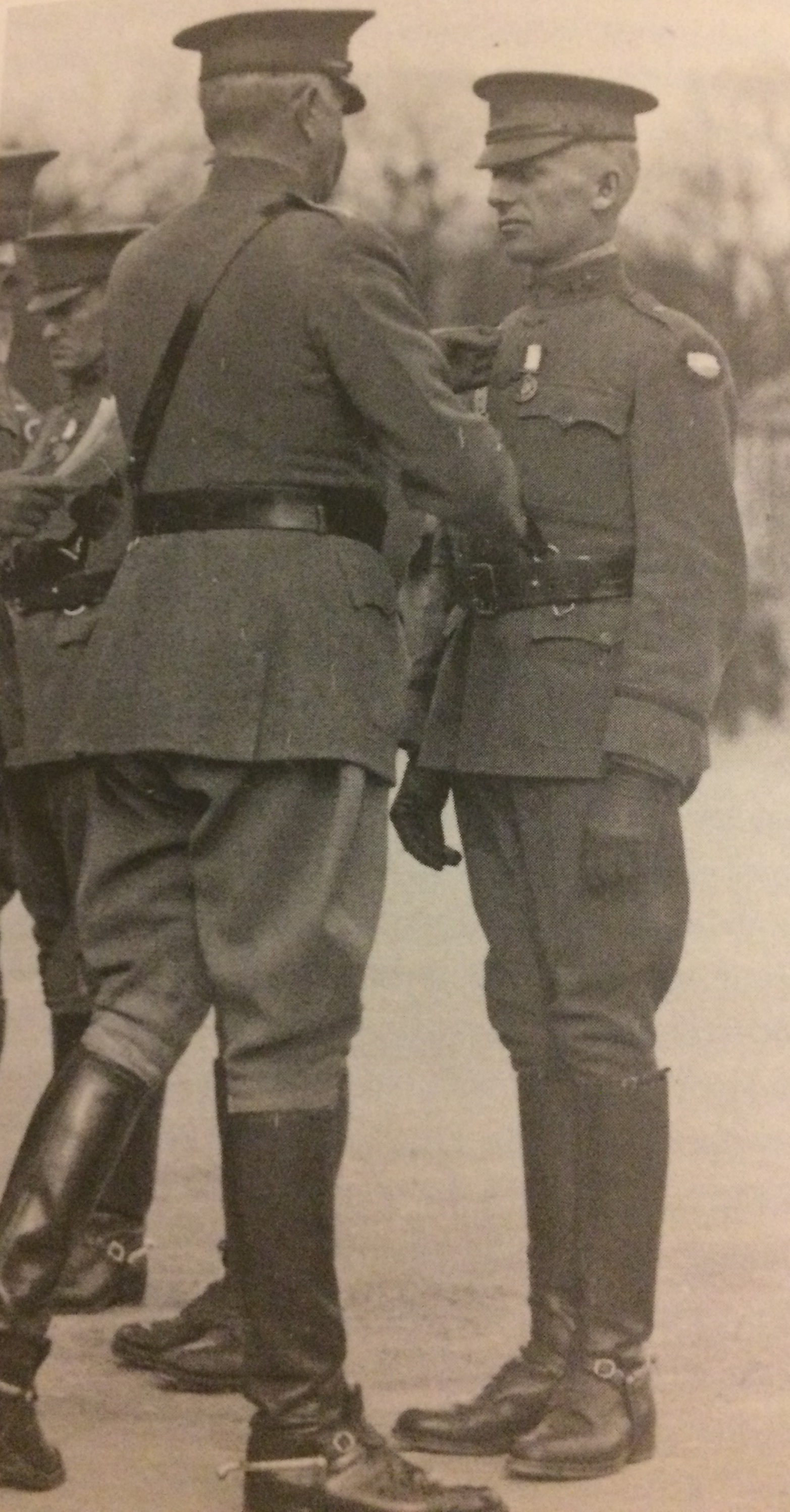 Lesley J. McNair receives Distinguished Service Medal from General Pershing, 1919.